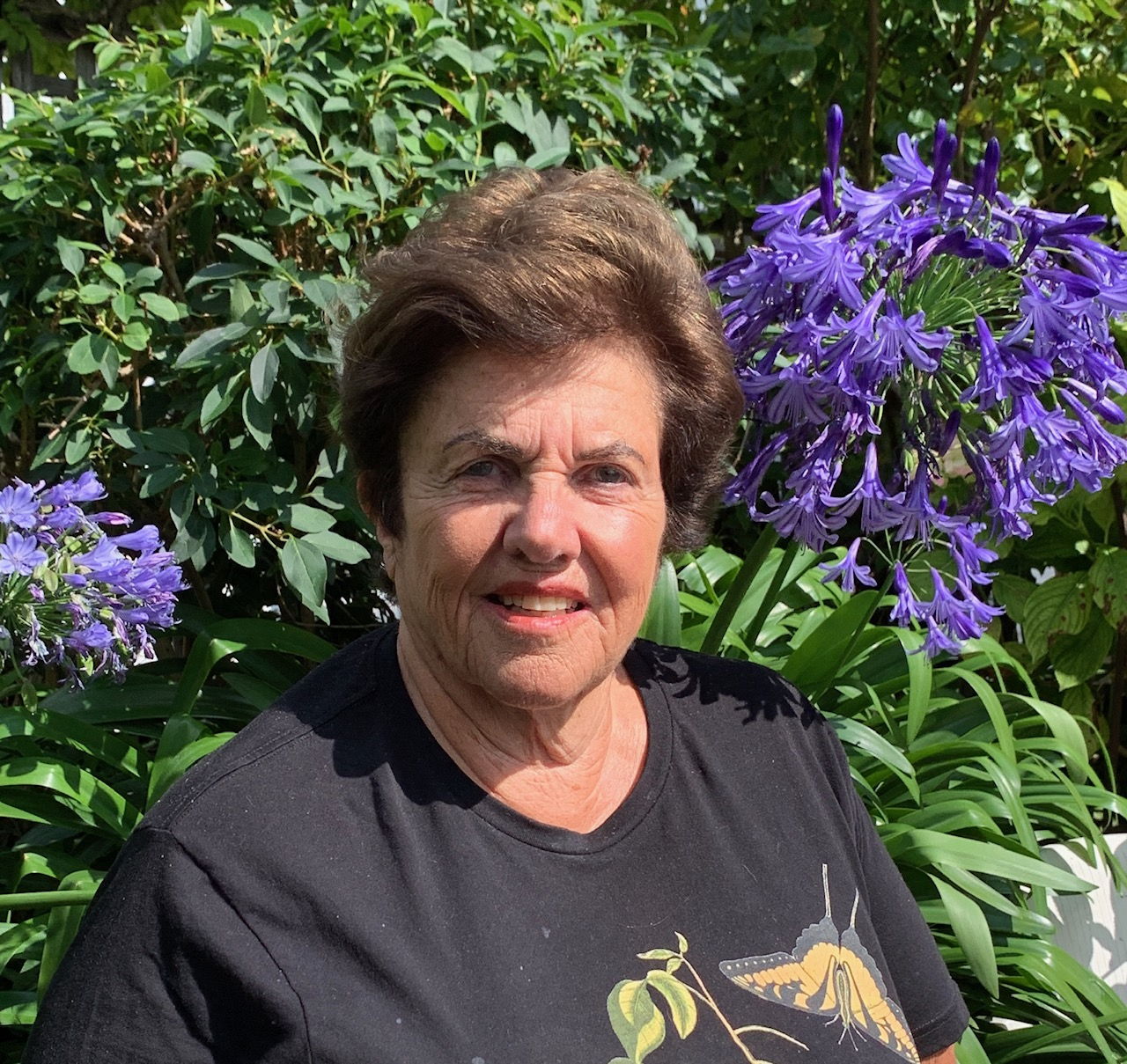 Jane Somerville 20 August 2019, Terrace garden, London